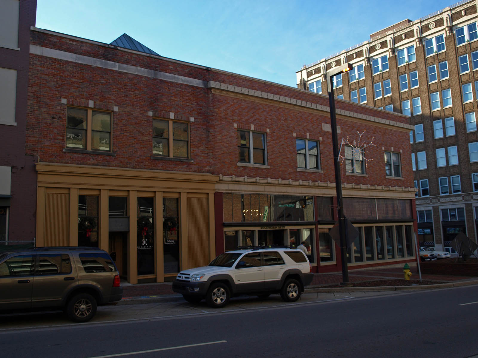 The W.T. Hutchens Building in Huntsville, Alabama, listed on the National Register of Historic Places.